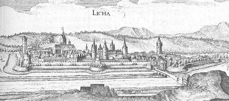 This is a scan of the historical document: Title: Lich - Topographia Hassiae language: german